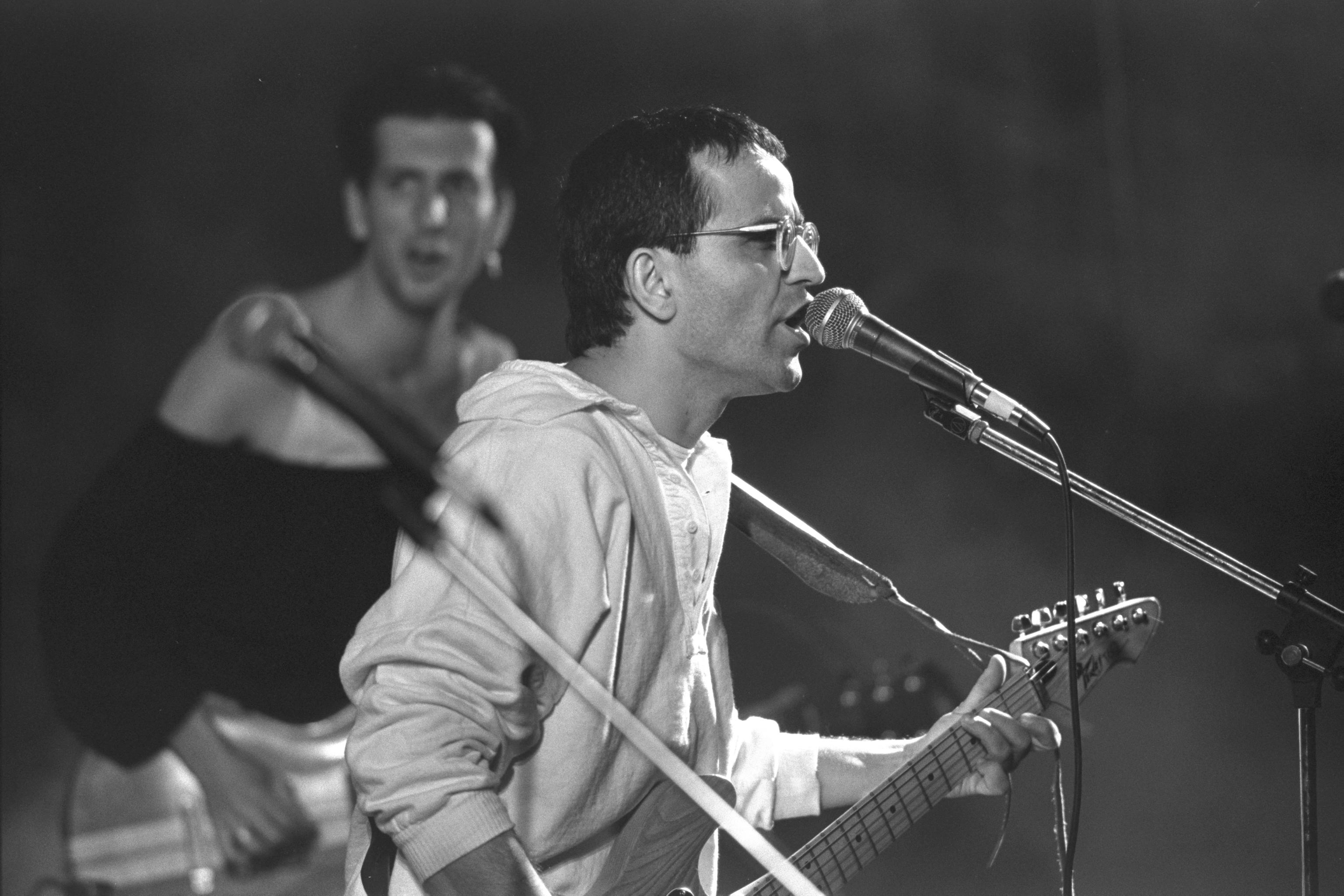 Ehud Banai, on stage at the Neve Shalom Rally for Peace. אהוד בנאי, בהופעה בנווה שלום